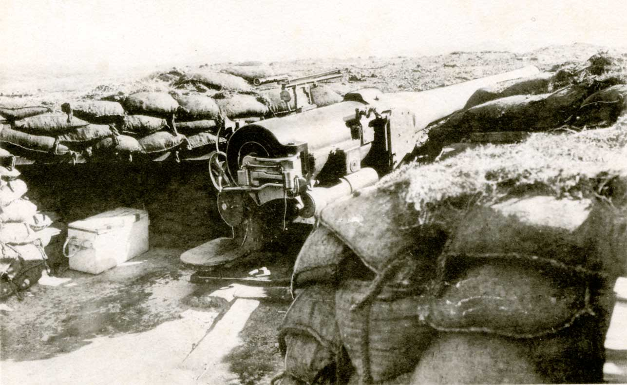 15 Centimeter Heavy Artillery Gun Placed at the West of 火石嶺